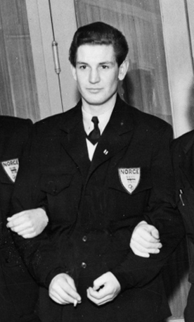 The Norwegian ski jumping team at the Olympics in St. Moritz in 1948: Christian Mohn